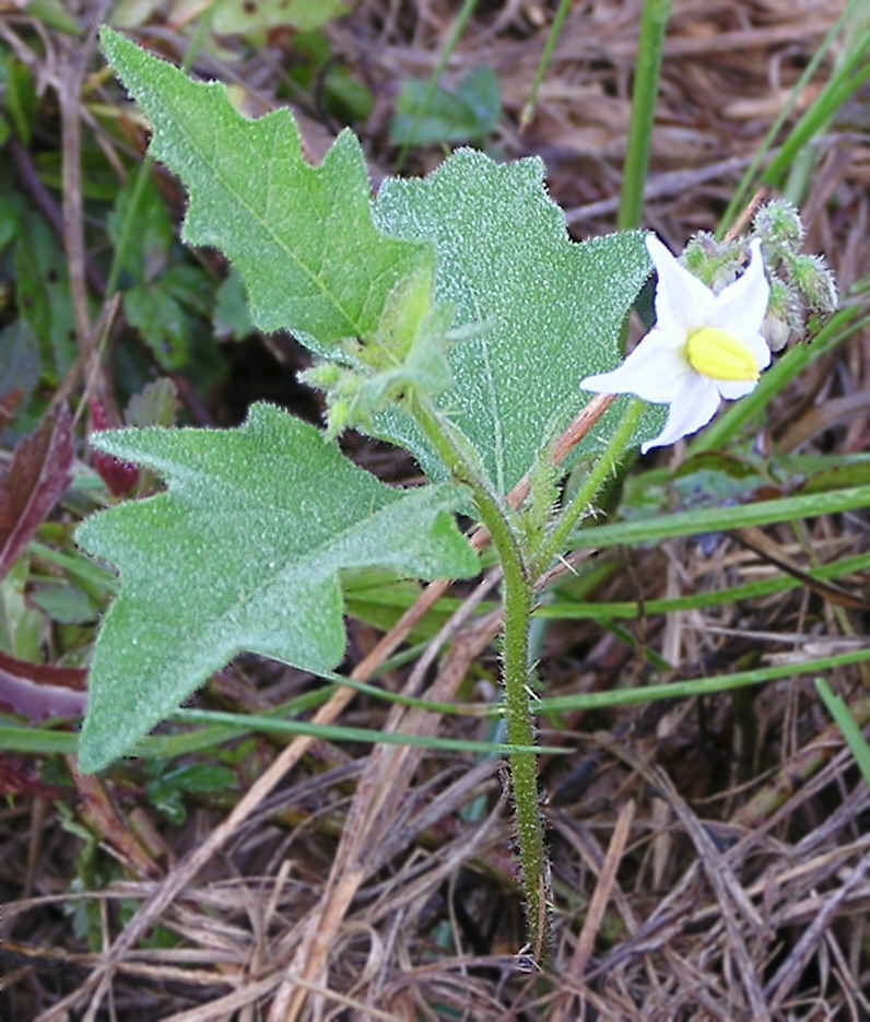 Young specimen of a deadly nightshade plant in flower. Photo taken Richard Chambers, Aug, 2004, in Statesboro, Georgia USA Actually its a relative - a horsenettle